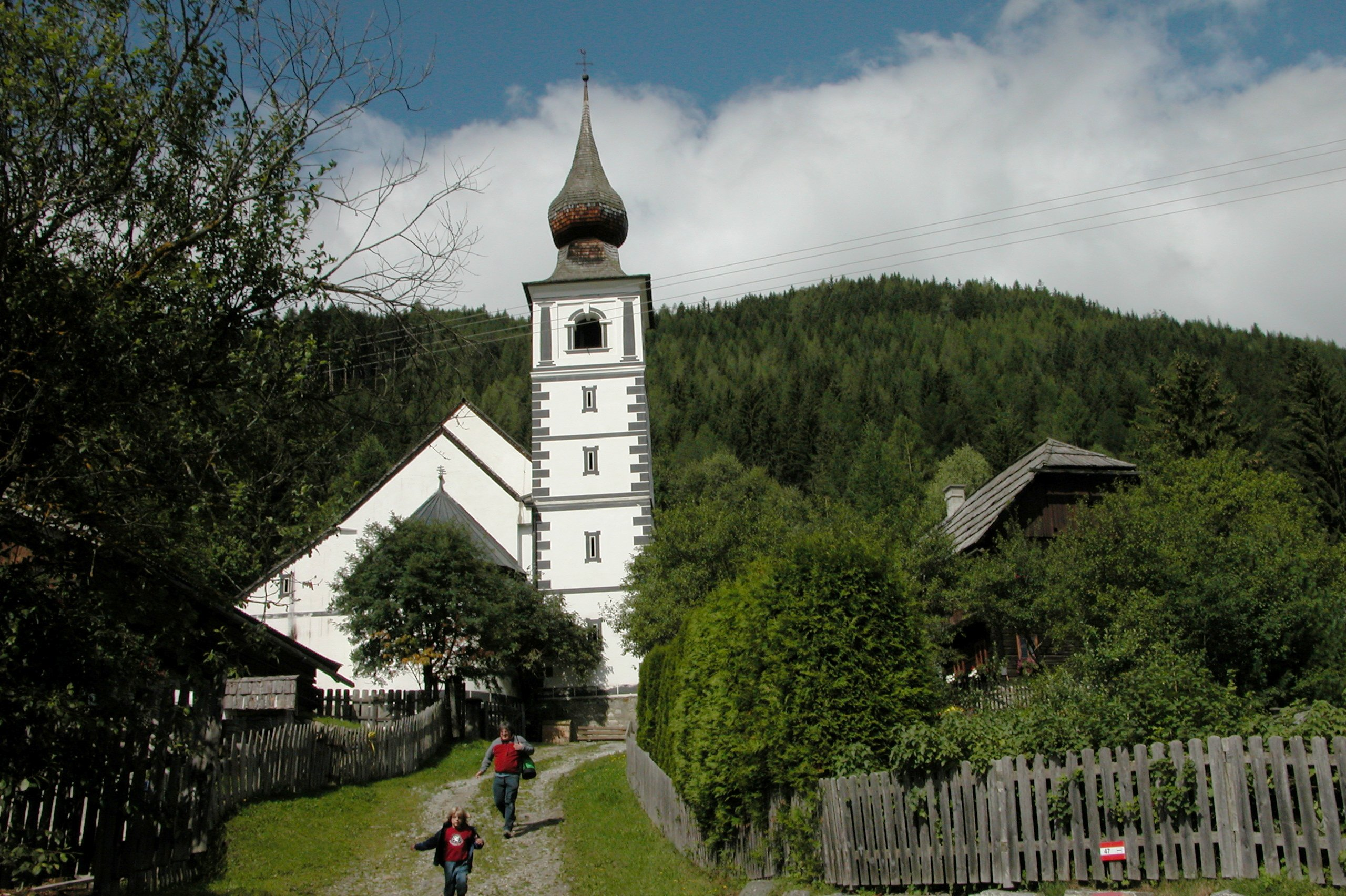 Church St. Rupert in Weißpriach Lungau/Austria - early romanesque church.